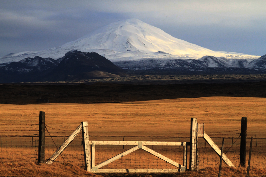 gated field with a snowcovered Hekla in the background